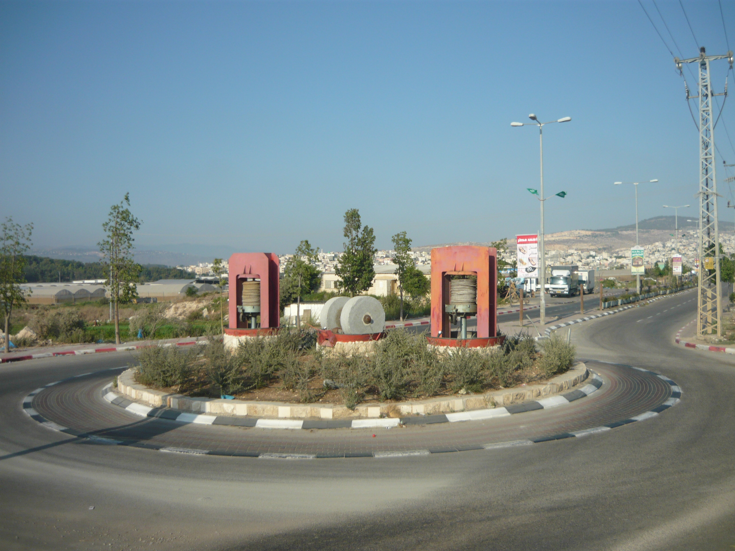 tamra ככר בכביש הכניסה לטמרה